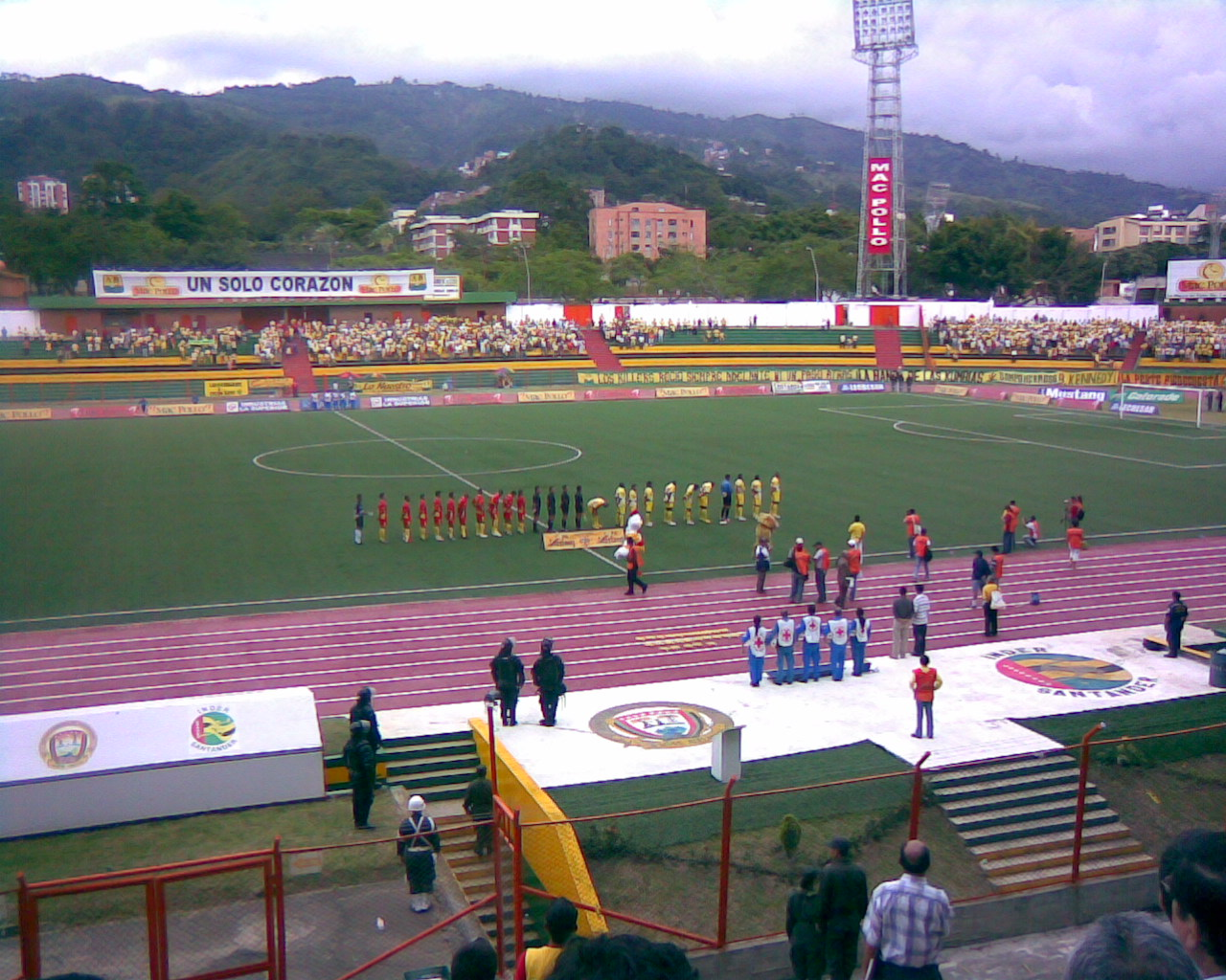 Alfonso López Stadium in b/manga